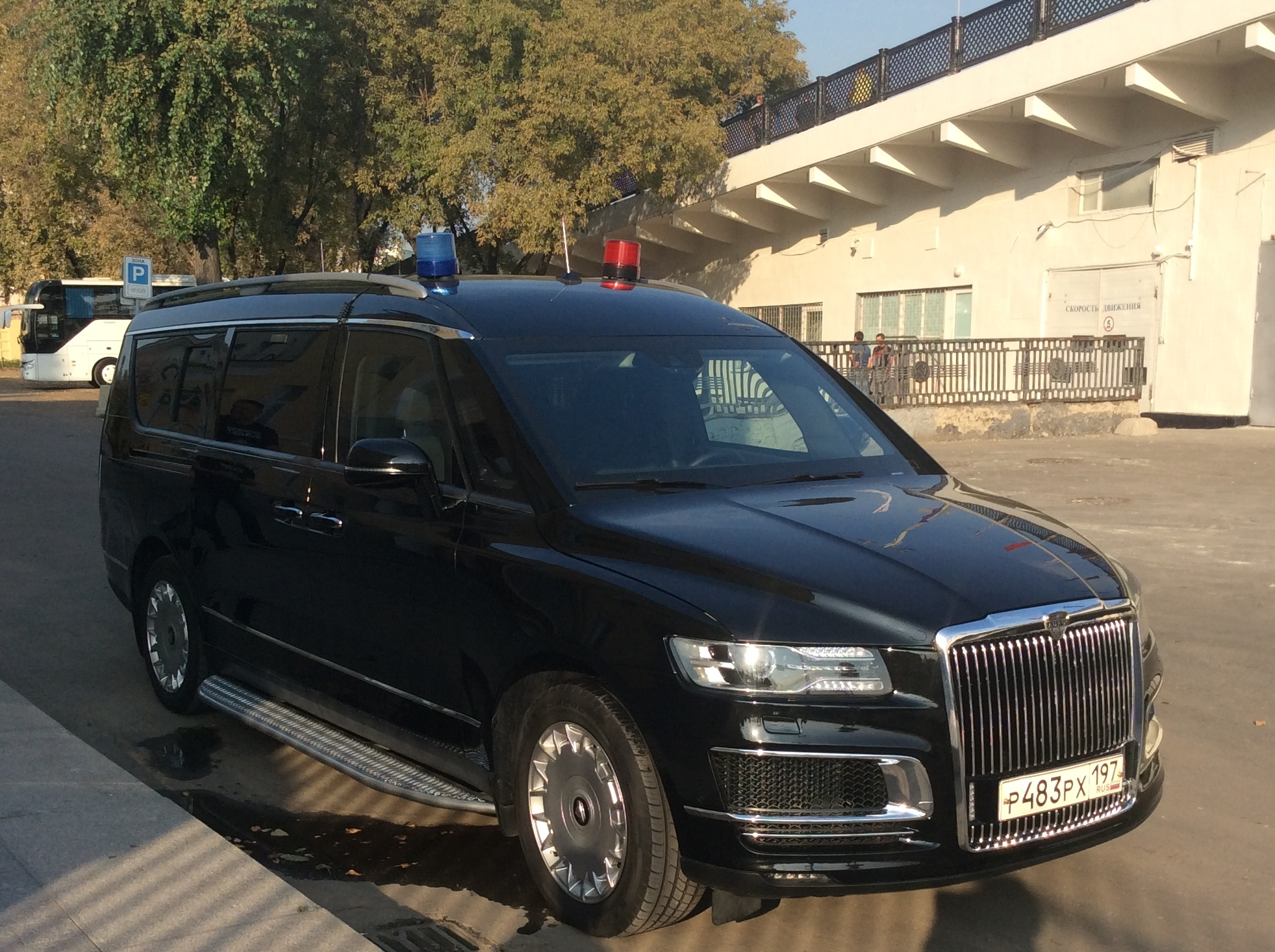 Aurus Arsenal at Moskvoretskaya Embankment next to Bolshoy Ustyinsky Bridge, Moscow